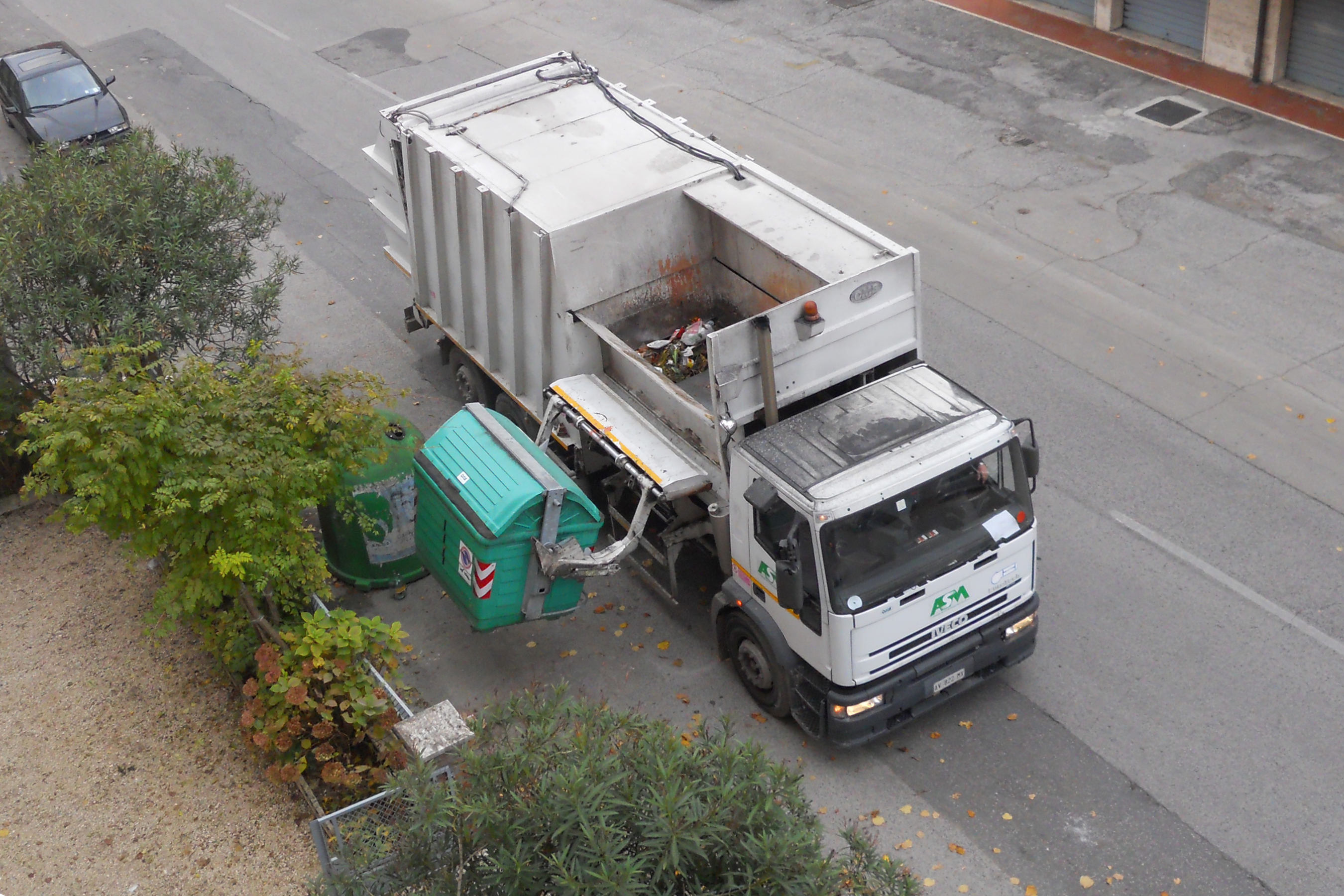 A truck for collection of undifferentiated waste lifting the trash bin; Rieti, Italy. The truck was registred on October 1998 in Lazio and has a 9500 cm³, 221 kW, Euro 2 diesel engine.